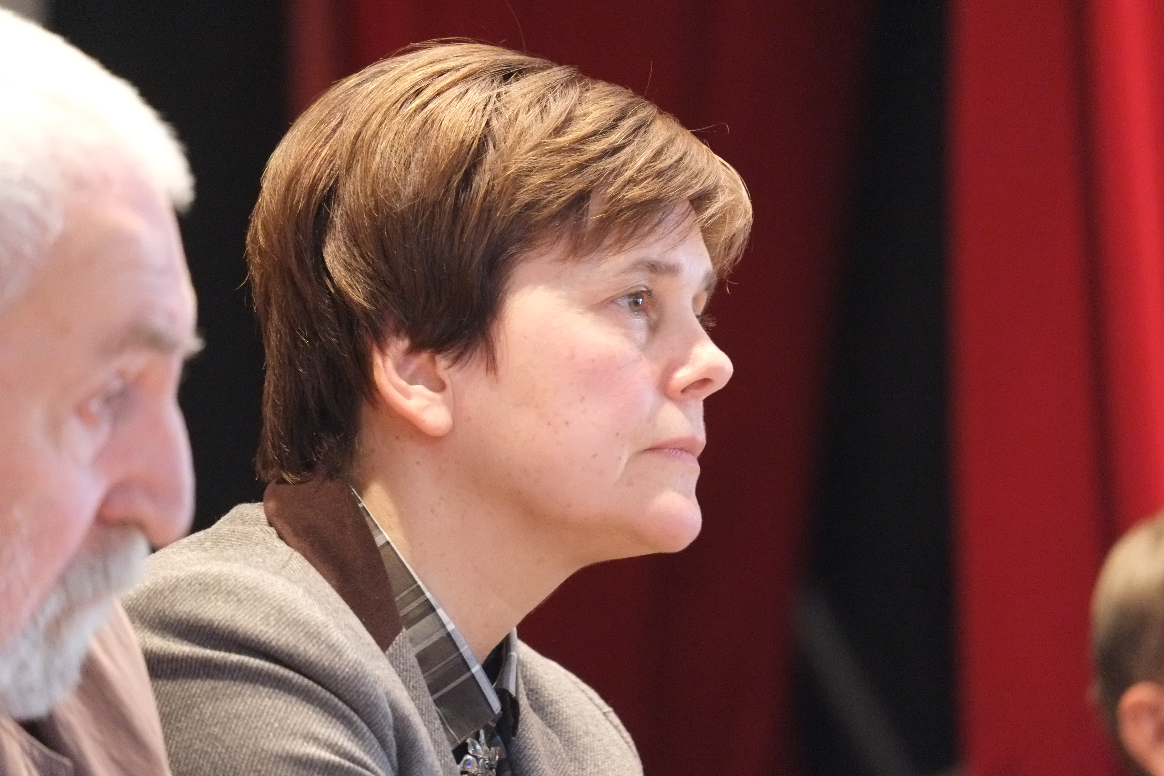 The first session of the intellectuals Congress "Against war, against self-isolation of Russia, against restoration of totalitarism", Moscow, March 19 2014, Large hall of Library For Foreign Literature. Irina Prokhorova